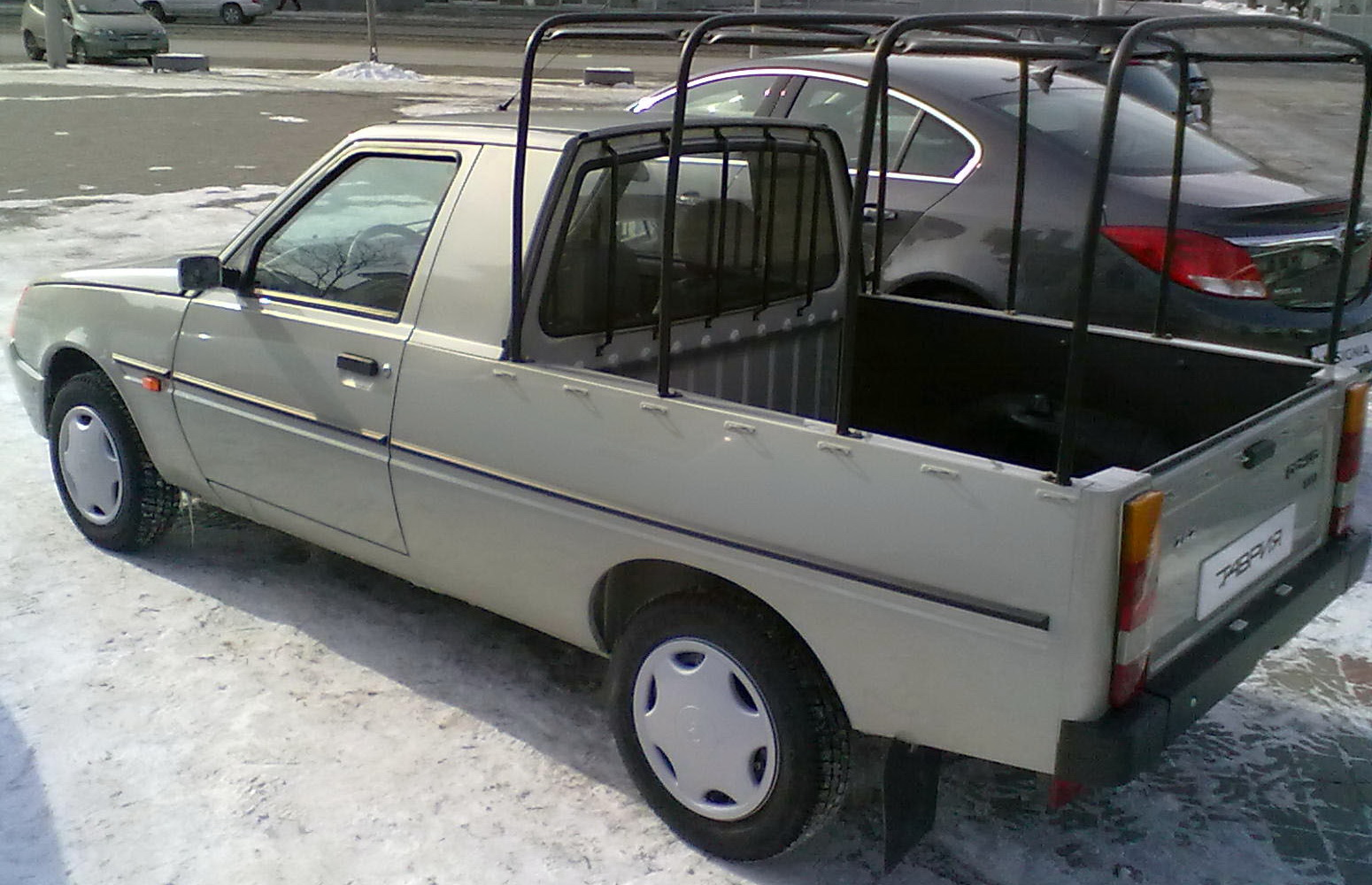 ZAZ-11055840 Tavria Pick-Up